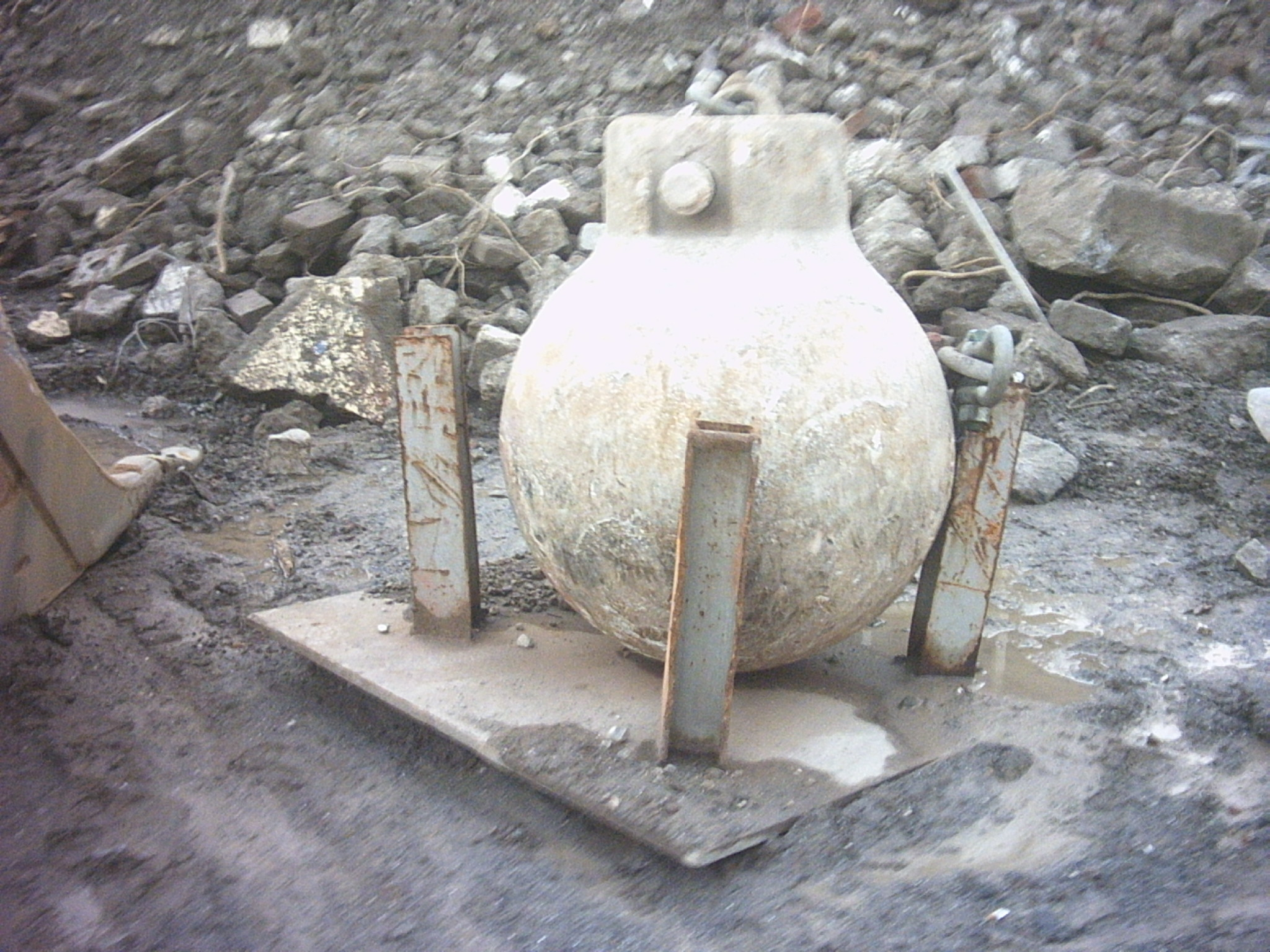 parked wrecking ball